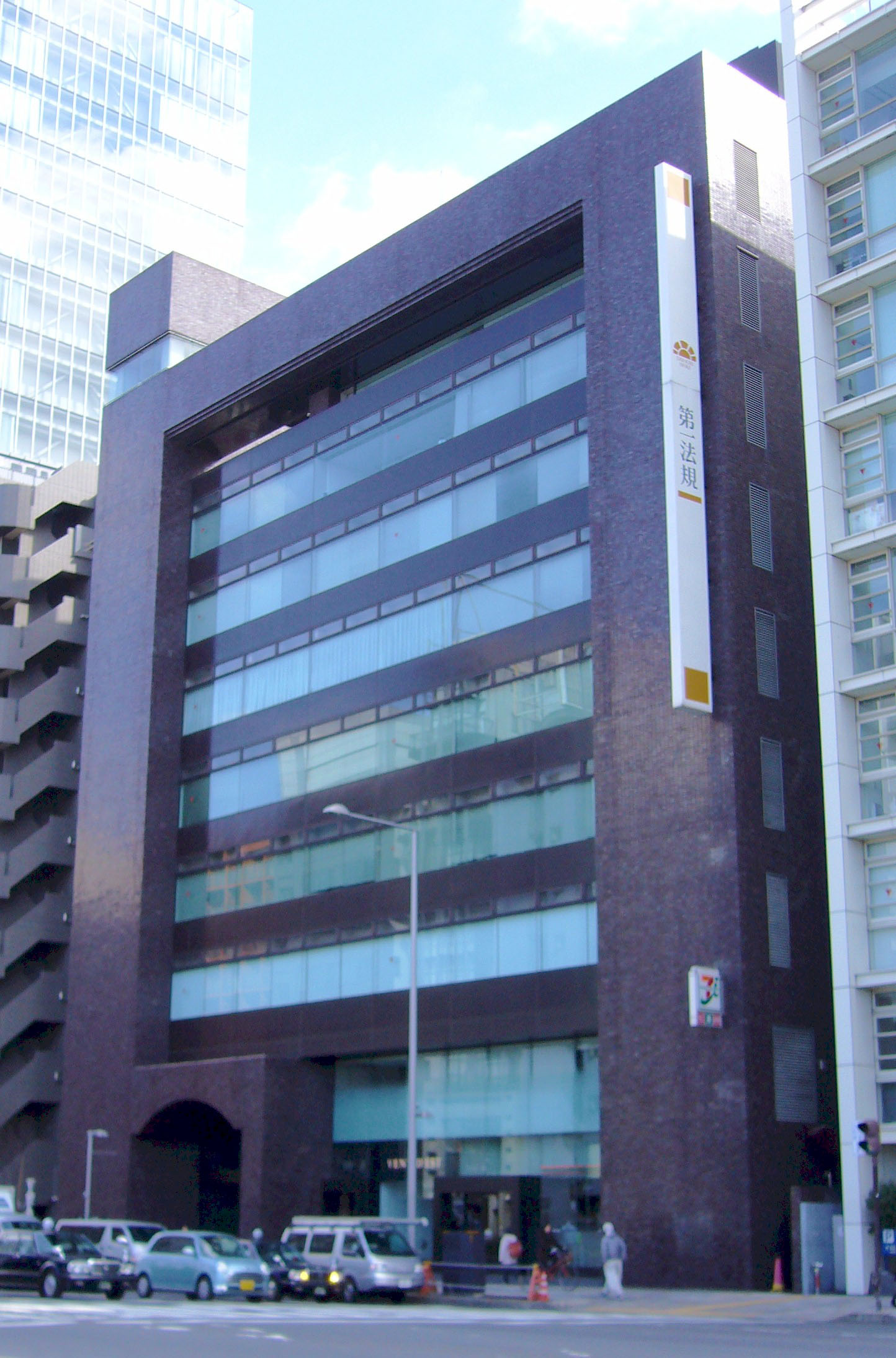 Daiichi Hoki (Publishing company in Tokyo, Japan)